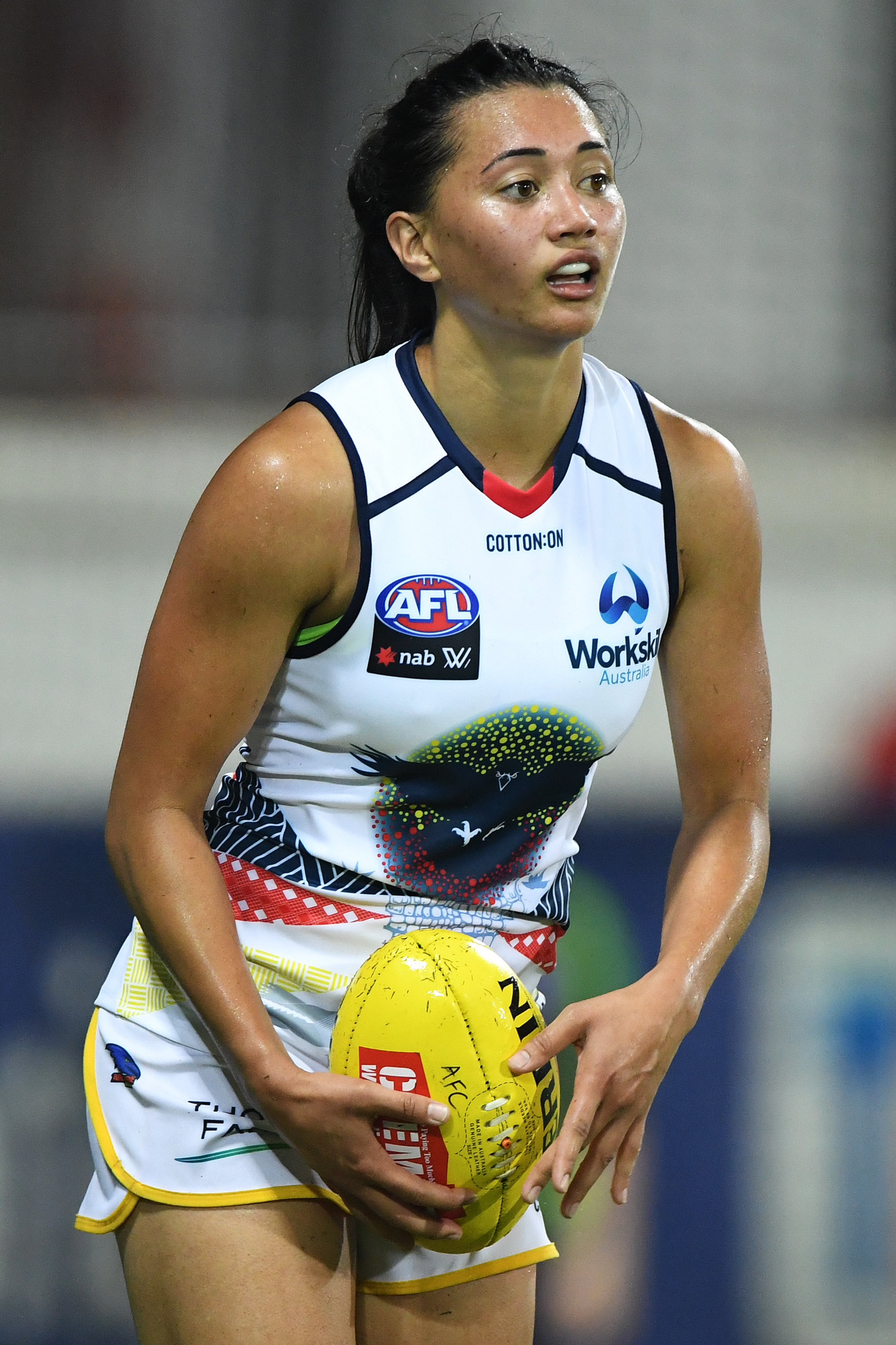 Hannah Martin of Adelaide during the 2019 AFL Women's practice match between the Adelaide Football Club and Fremantle Football Club at TIO Stadium on January 19, 2019 in Darwin Australia.